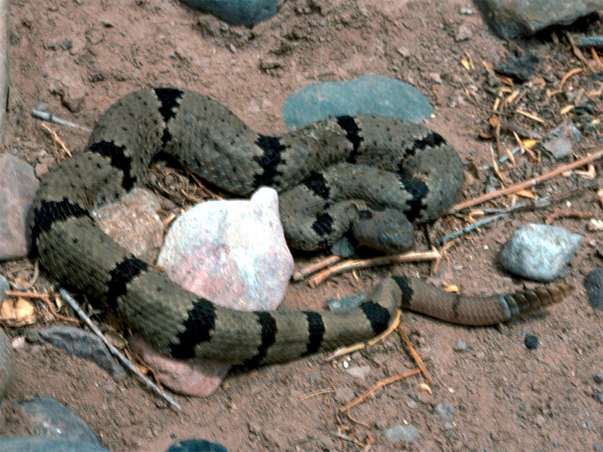 Banded Rock Rattlesnake (Crotalus lepidus klauberi)